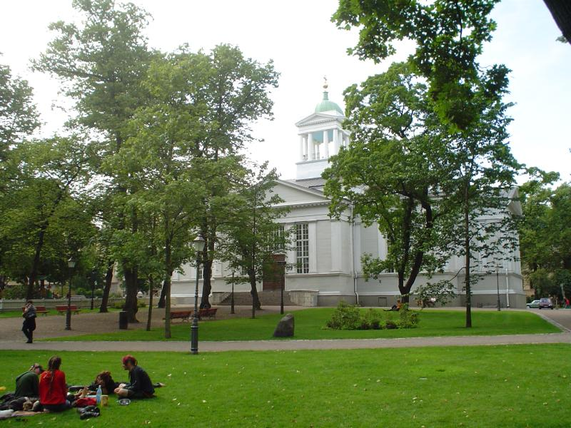 The Old Church Park/The Pest Park in Helsinki, Finland. The church built 1826. Architect: Carl Ludvig Engel.